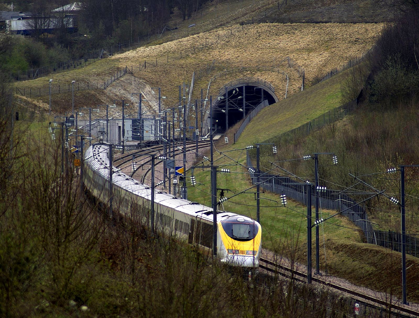 British Rail Class 373 train on Eurostar service heading out of the Medway Towns on the HS1 (High Speed 1) line having just crossed the Medway Vidaucts and about to enter the North Downs Tunnel under Blue Bell Hill. The train is southbound on the CTRL Down at the "56 KM" mark (56 kilometres from London) travelling at 270–300 km/h. Based on time of photograph, probably Fridays-only non-stop service 9022 (St Pancras 11:32→Gare du Nord 14:47).